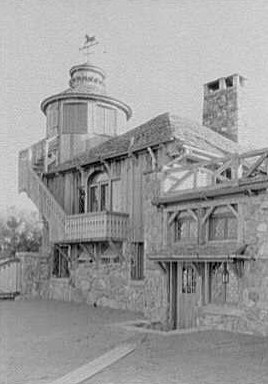 Starling W. Childs, residence in Norfolk, Connecticut. Sport house, lower north entrance and tower cropped This work is from the Gottscho-Schleisner collection at the Library of Congress. According to the library, there are no known copyright restrictions on the use of this work. Images in this collection have been placed in the public domain by the heirs of the photographers.